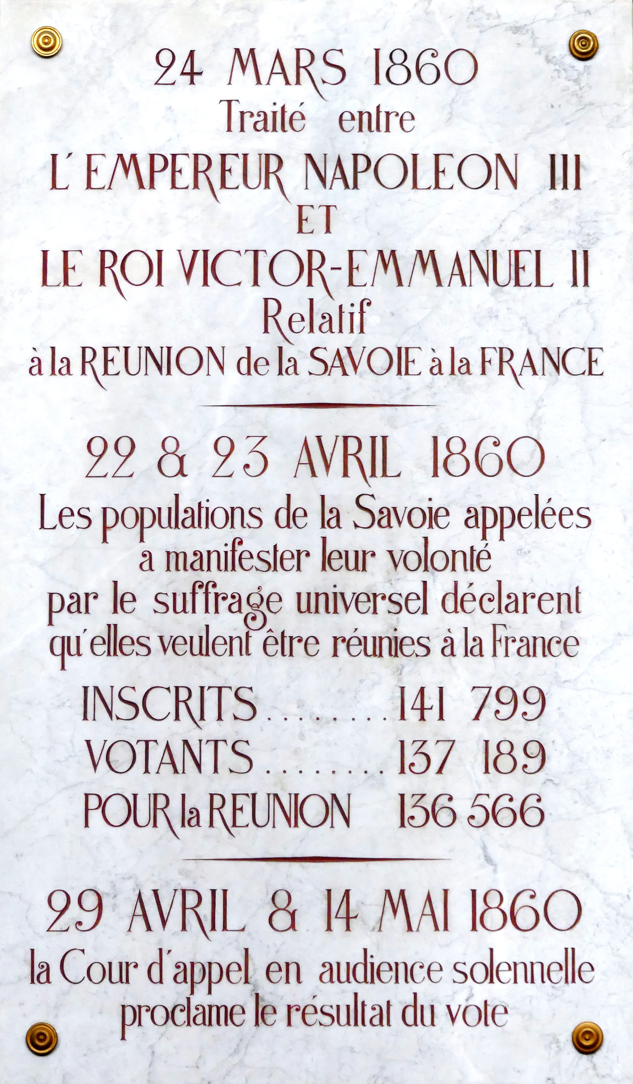 Foundation stone in the Salle des audiences solennelles room of the Chambéry courthouse (Savoie, France), where results of the votation about annexing Savoie by France were made official, in 1860.